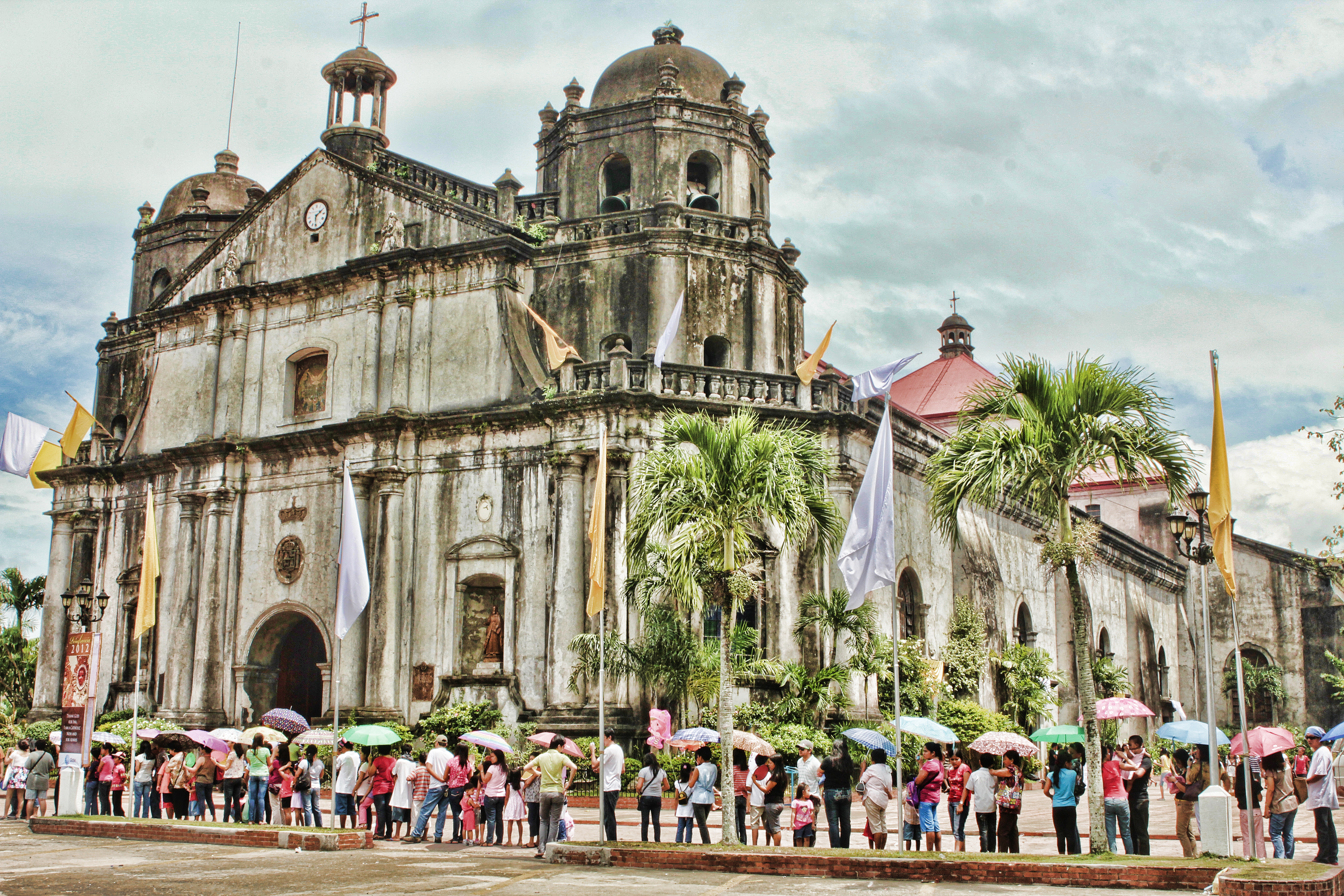 This is the facade and the side view of the Naga City Metropolitan Cathedral. People queued and waited for long hours just to pay homage to the Image of Our Lady of Penafrancia during the Penafrancia festival in September.